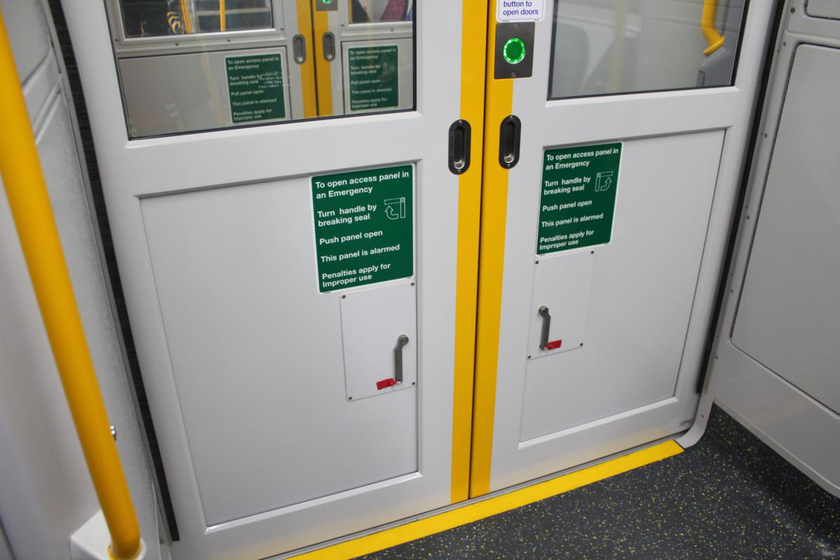 A set inter-carriage doors closeup cityrail